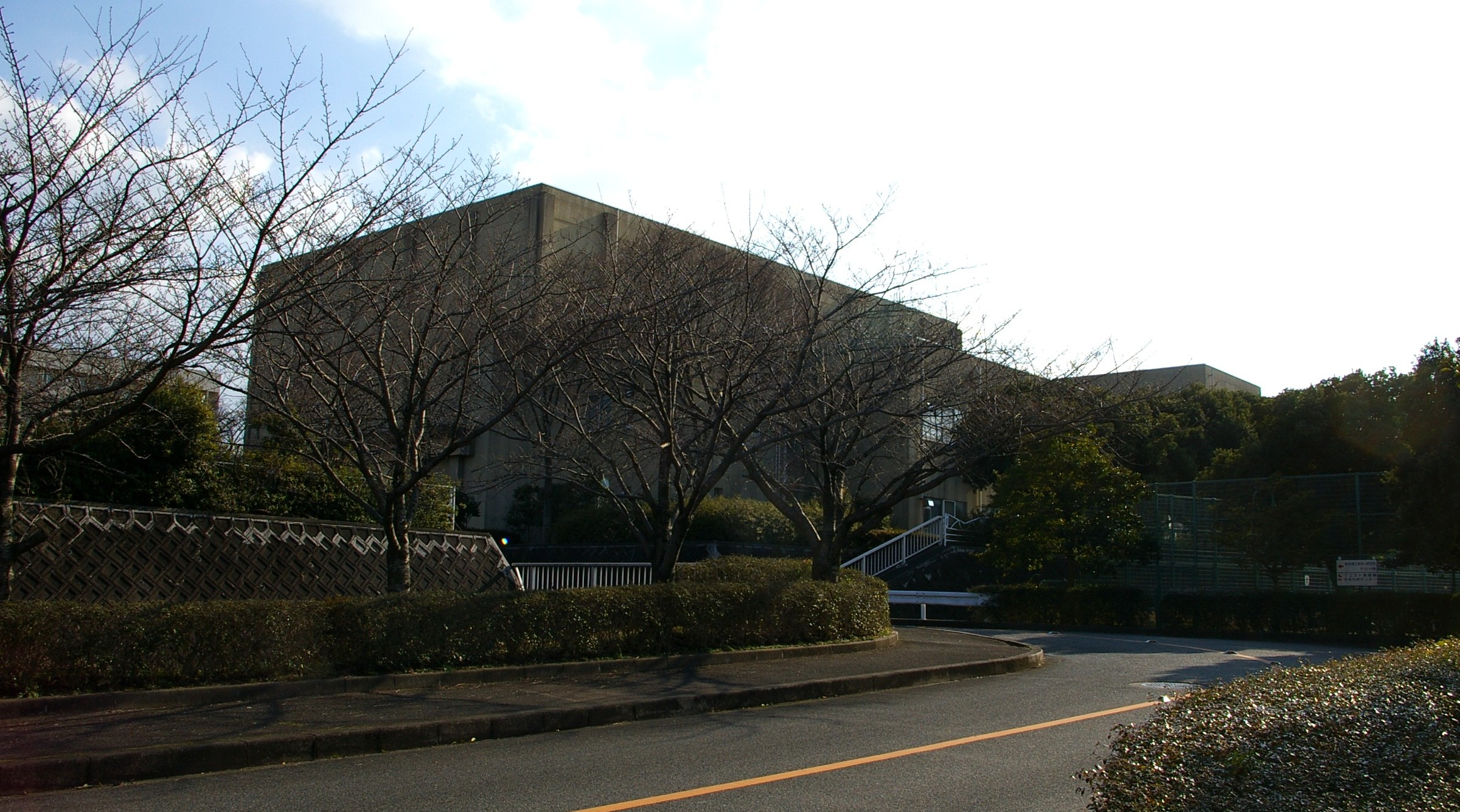 Fukuoka